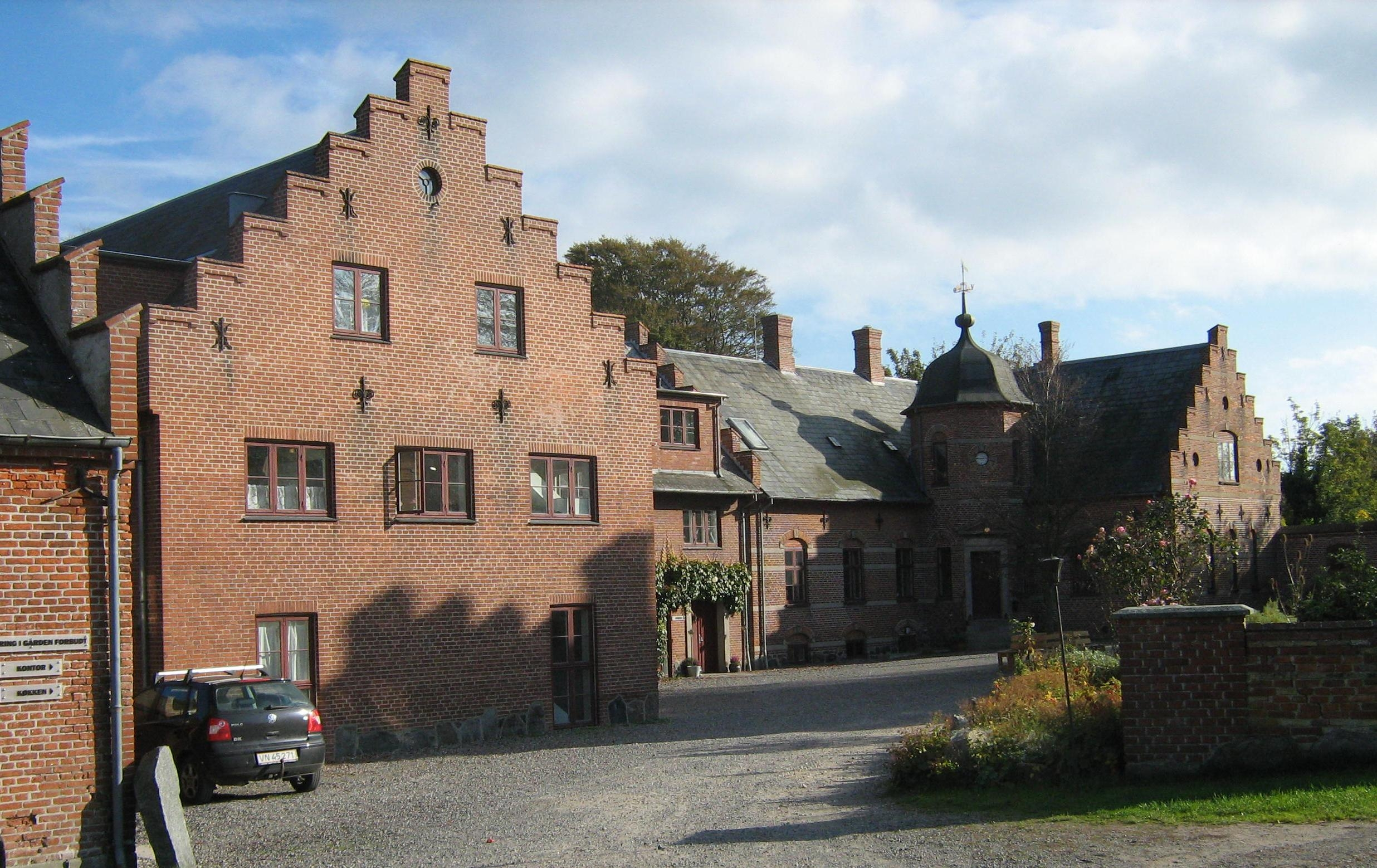 Rødkilde Højskole, built 1866, a folk high school on the island of Møn, Denmark.